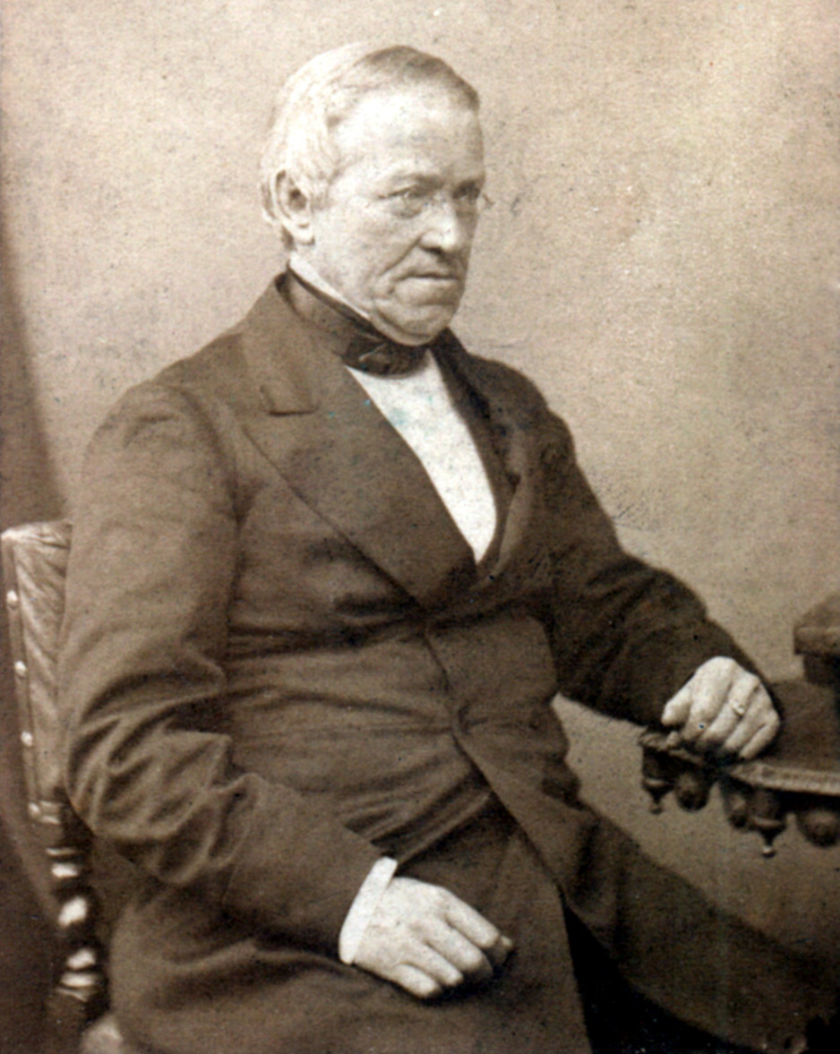 Portrait of Charles Wheatstone (1802-1875), Physicist